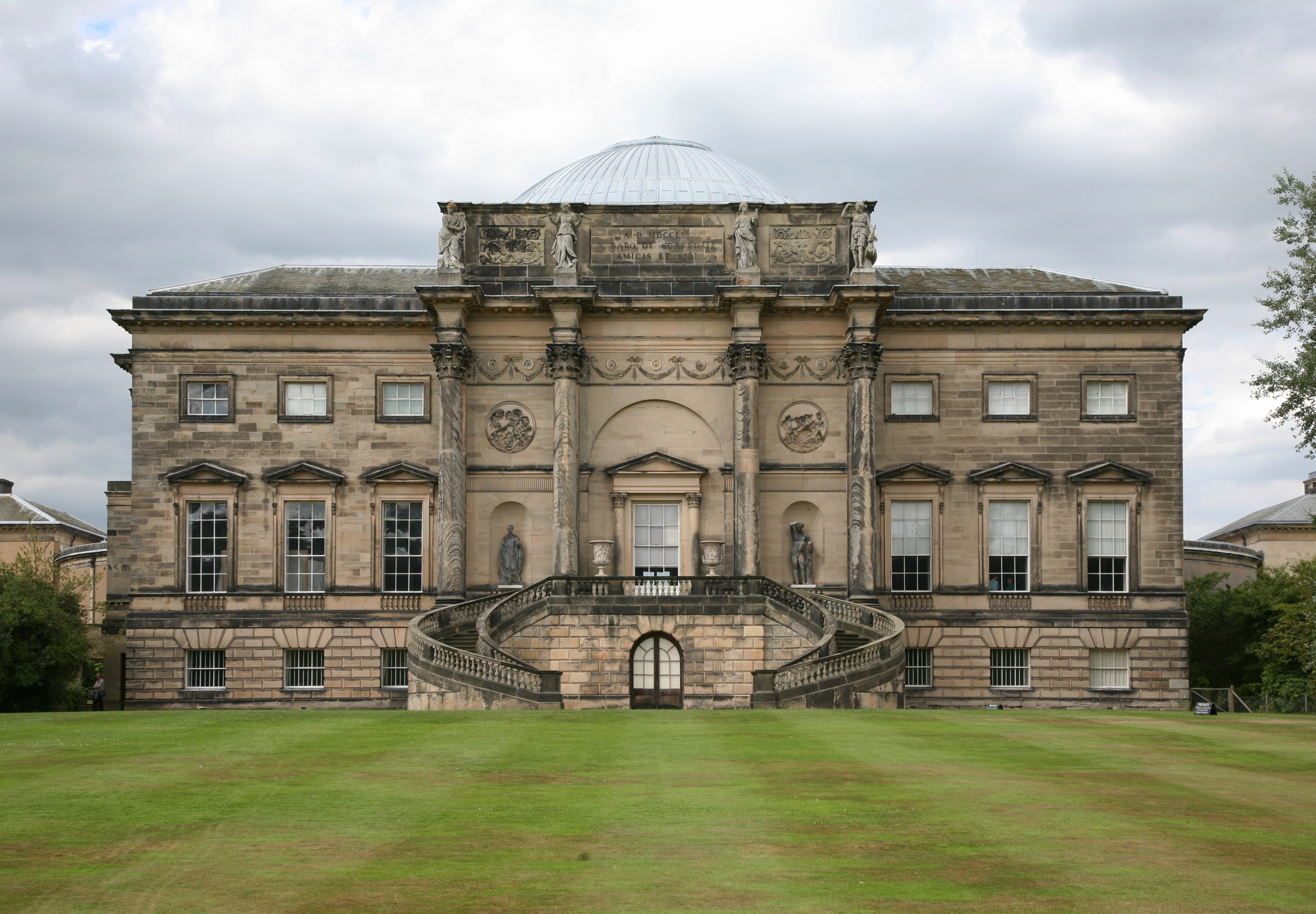 Kedleston Hall in Derbyshire. The house designed by James Paine, Matthew Brettingham and finished by Robert Adam. The south front by Robert Adam.